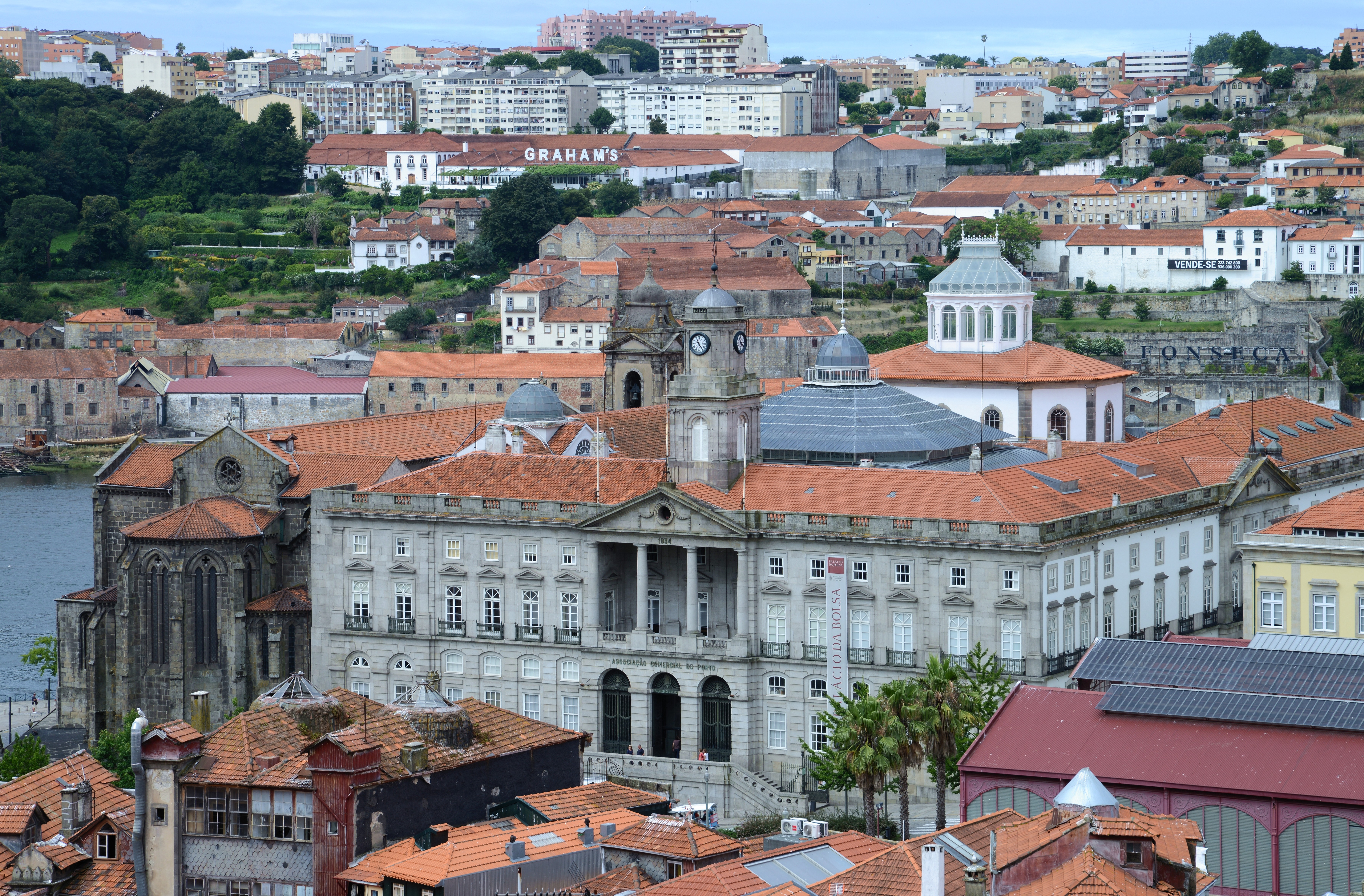 View of Porto from Serra do Pilar. In the foreground the Palácio da Bolsa and the Church of San Francisco